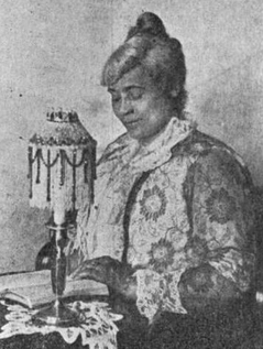 An older African-American woman with grey hair, seated at a table, hands and eyes on an open book; there is a small ornate lamp nearby, and lace on the tablecloth. She is wearing a lace or embroidered dress.